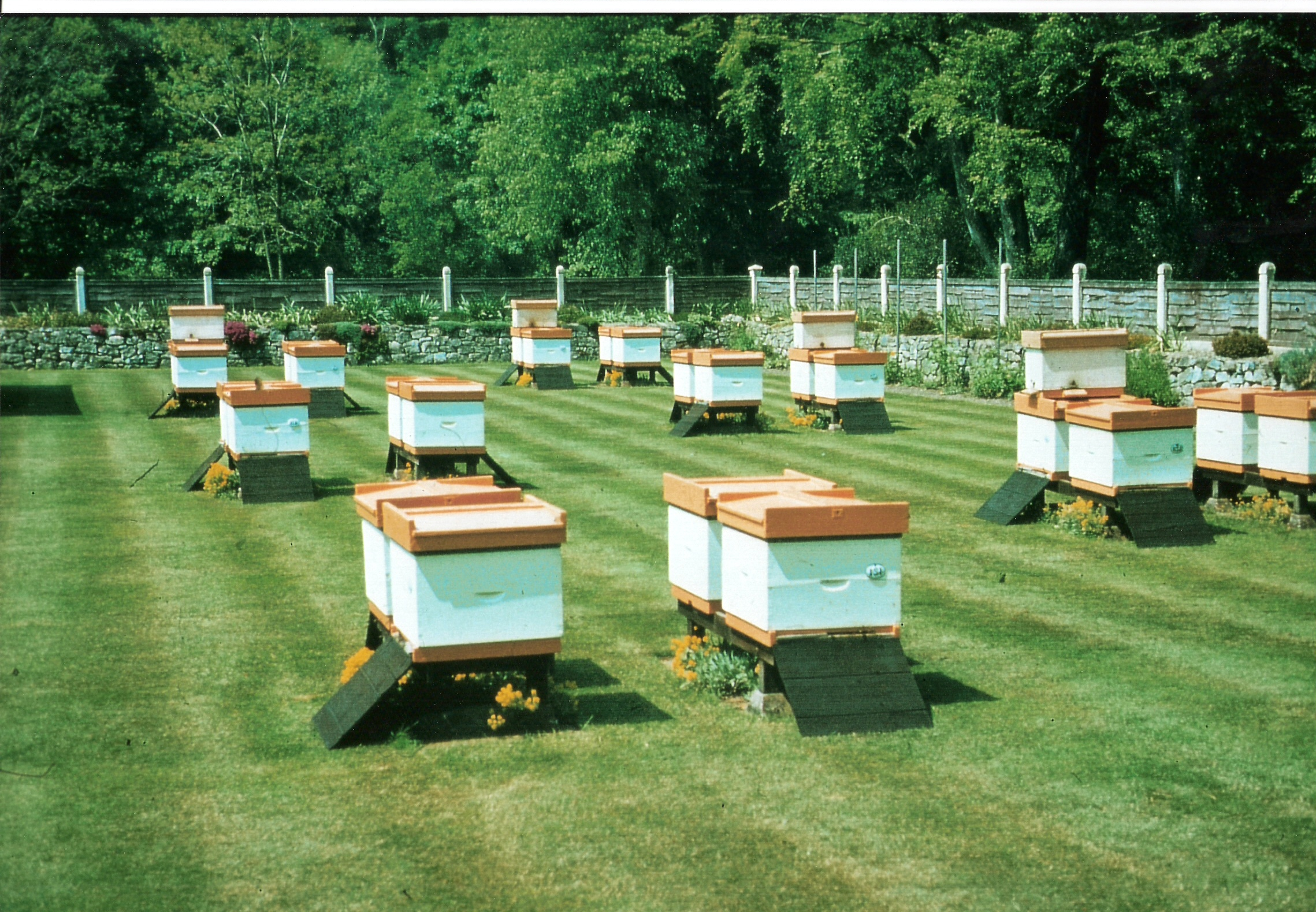 Apiary of Buckfast bees.